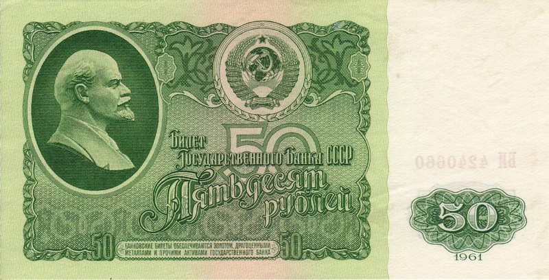 1961 Soviet Union 50 rubles bill obverse See also other side Image:Soviet Union-1961-Bill-25-Reverse.jpg